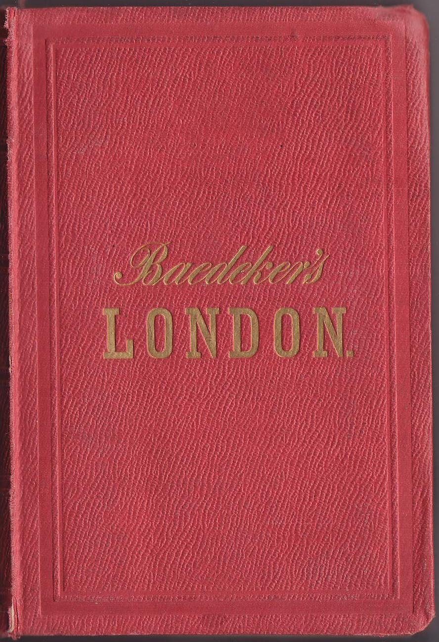 Baedekers London 1862, Einband